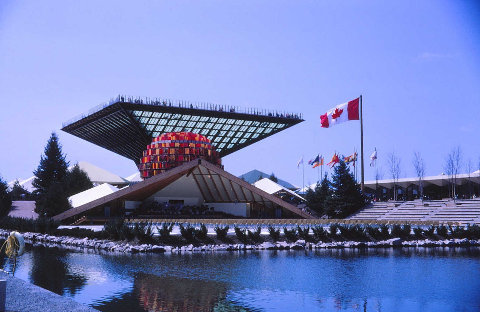 The Canada Pavilion and its reversed pyramid, the Katimavik ( inuit word meaning "gathering place"). Expo 67, Montréal, Québec, Canada.